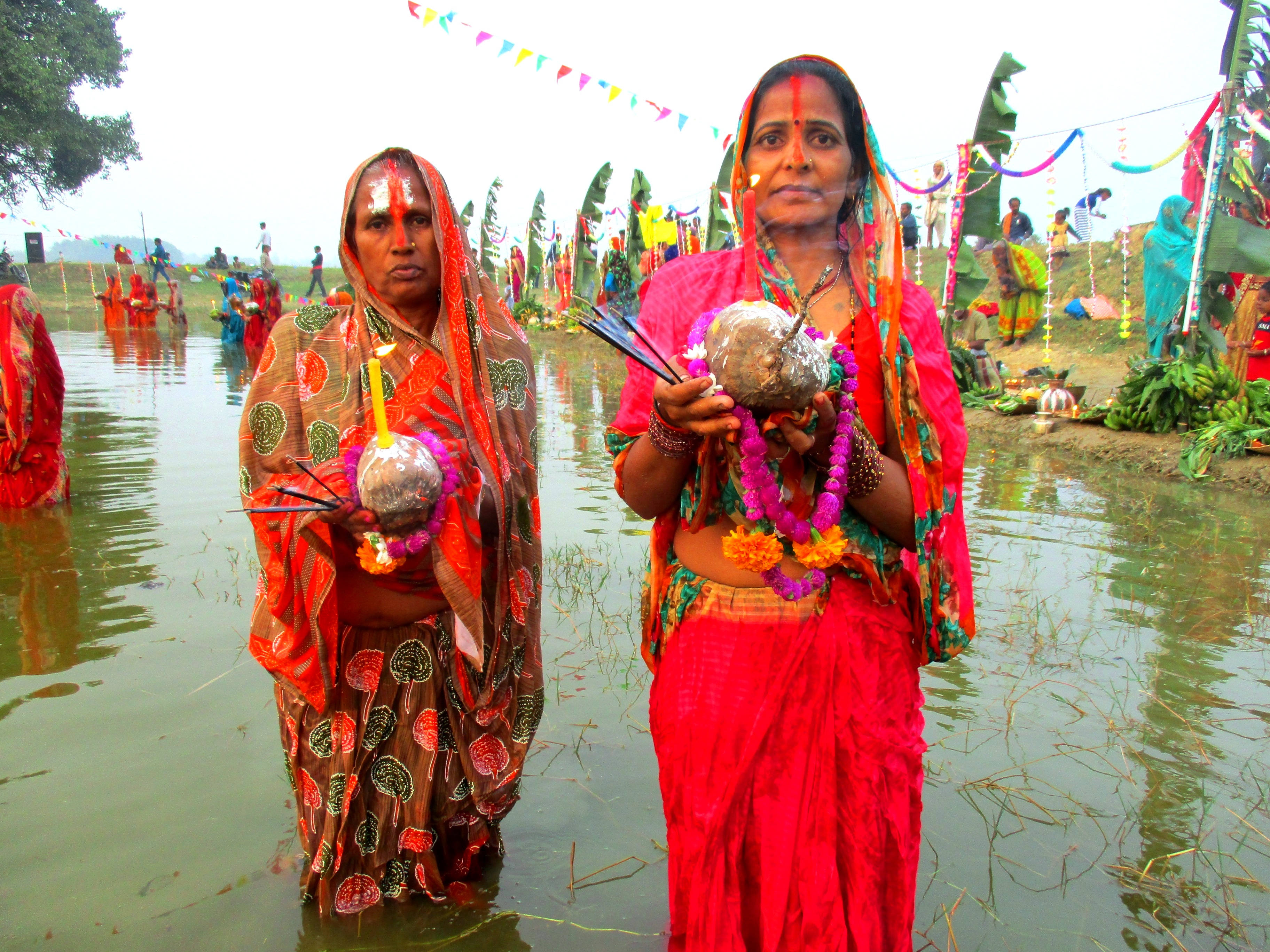 Madhesi women from the Terai region of Saptari praying to the Sun God during Chhath Puja for the well-being of their family. The process of lifting those worshipping materials infront of setting and rising Sun in their hand is called "Argha". This photo has been taken in the country: Nepal